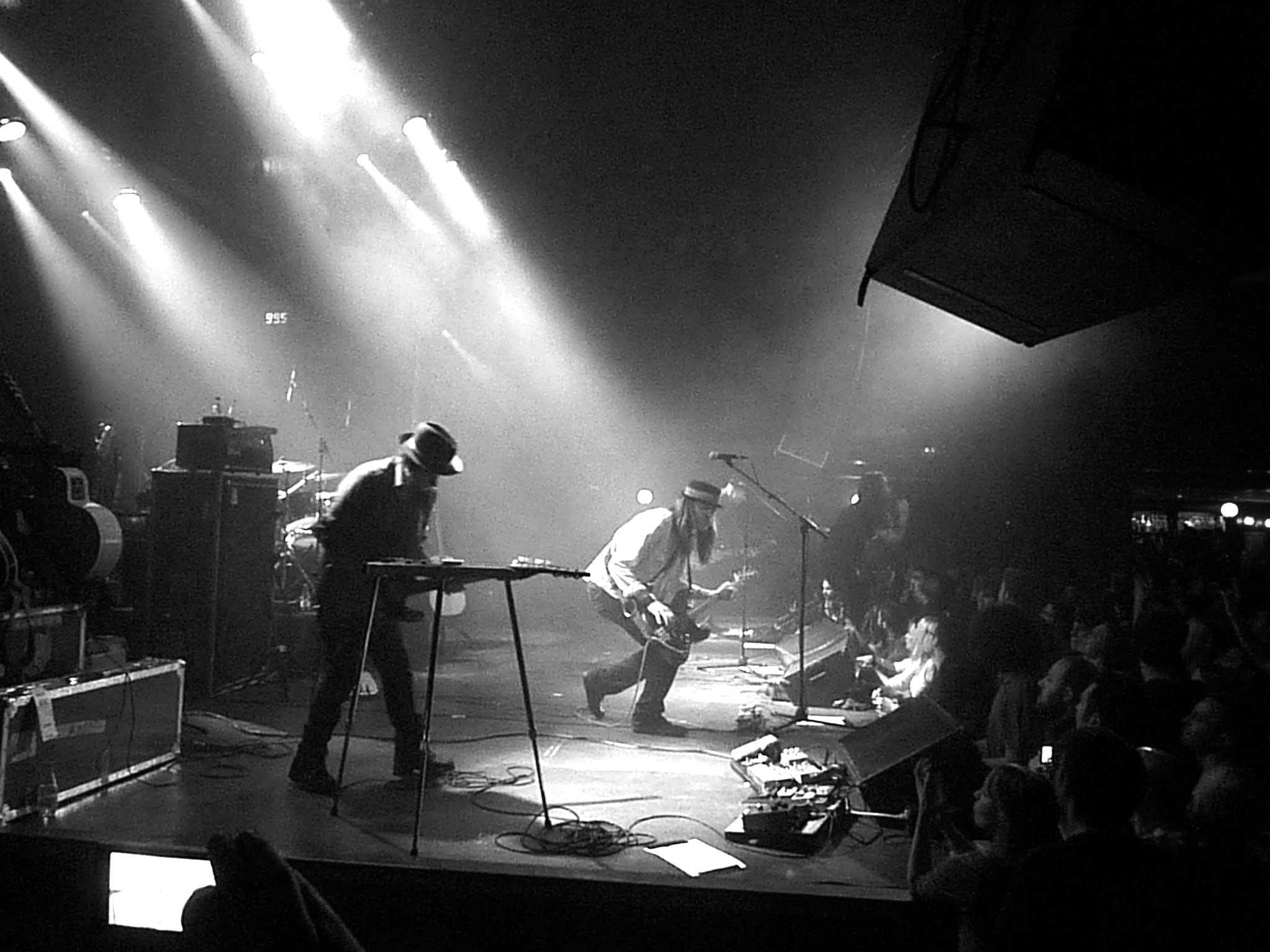 Blind Melon performing live at Sala Apolo in Barcelona November 8, 2012.